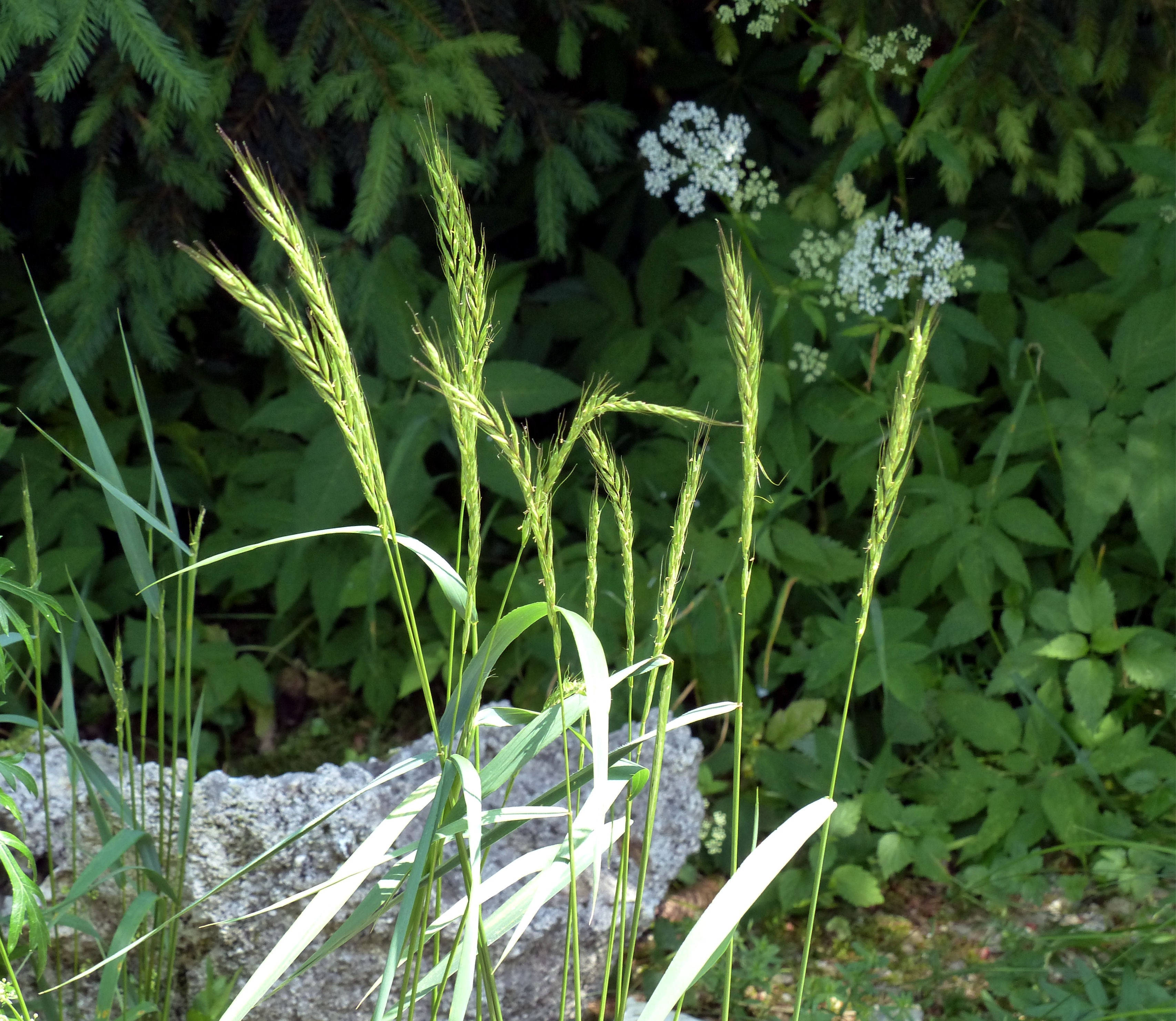 Elymus caninus